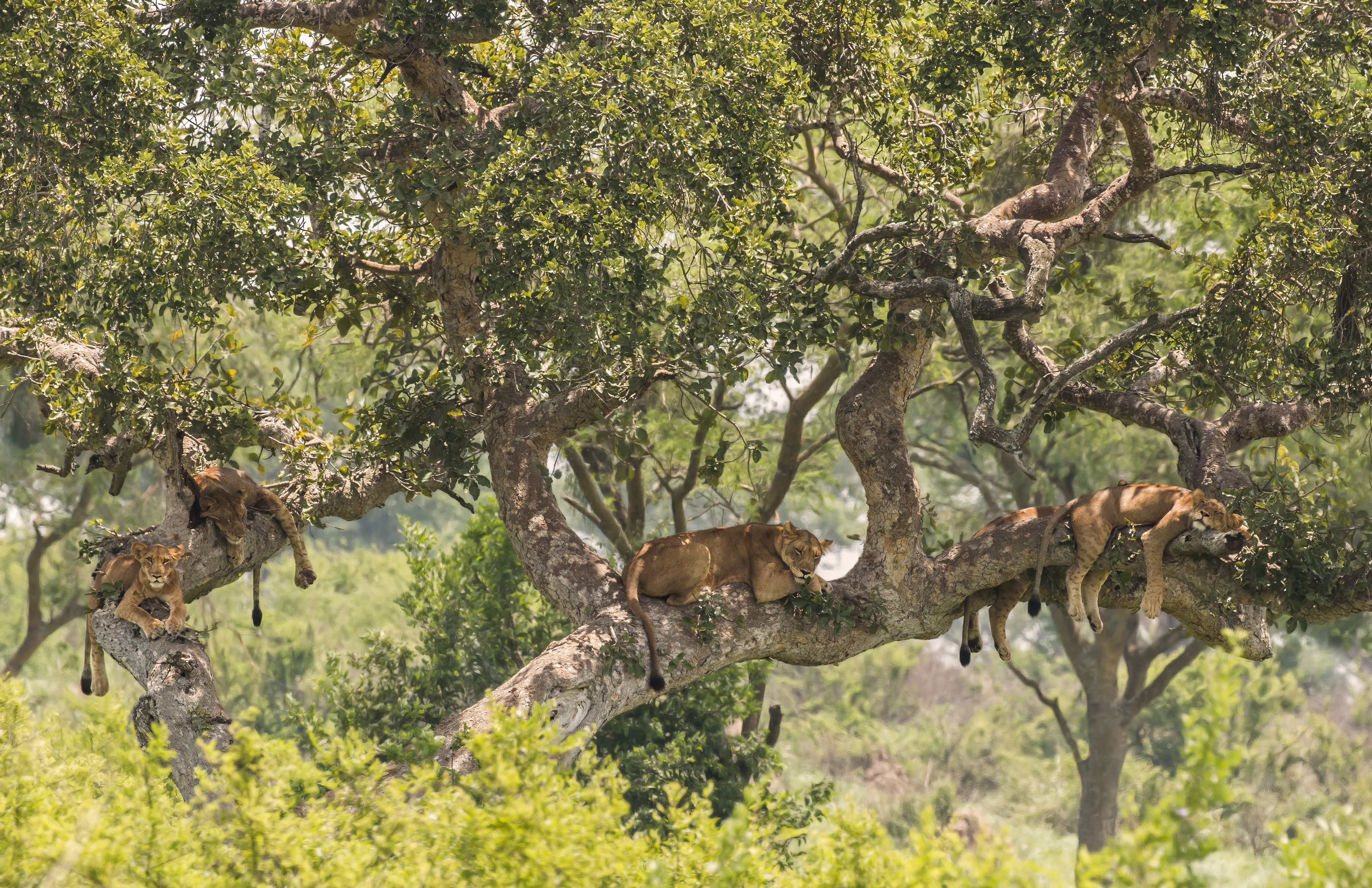 Tree-climbing lions (Panthera leo), Ishasha, Queen Elizabeth National Park, Uganda